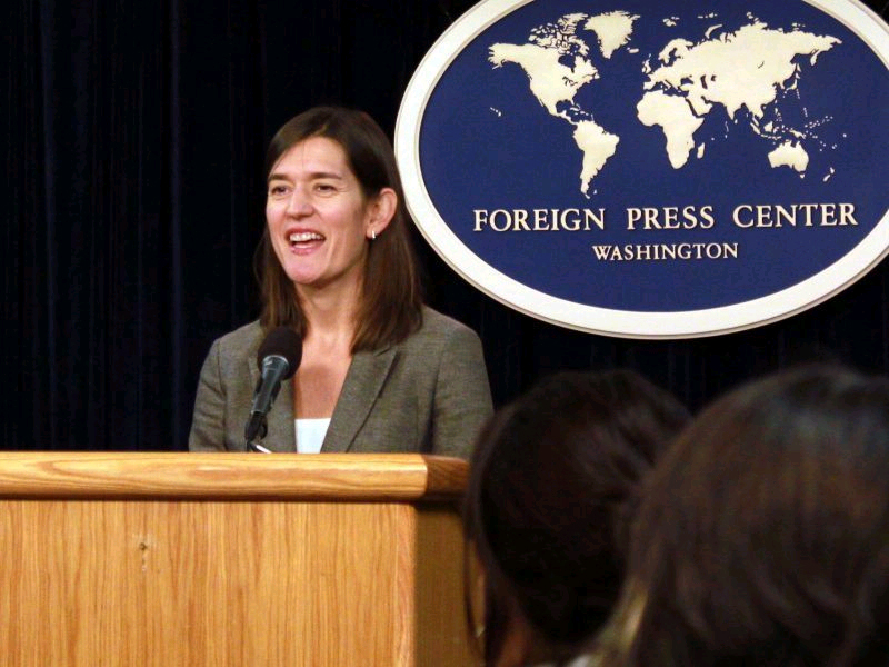 American journalist Kate Zernike, delivering a briefing on "The Tea Party and the 2010 Midterm Elections"